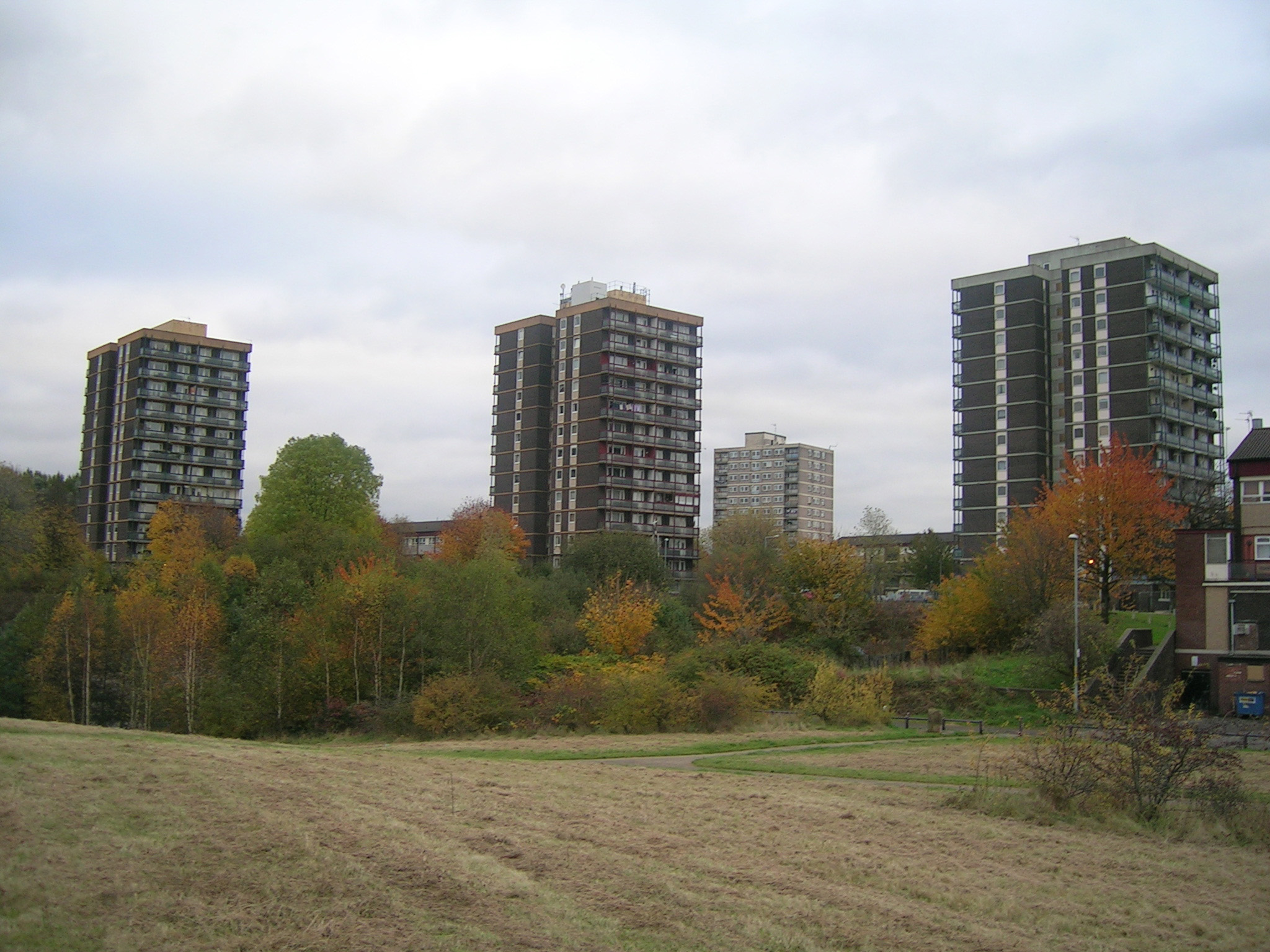 A view towards Collyhurst, in north Manchester, England.